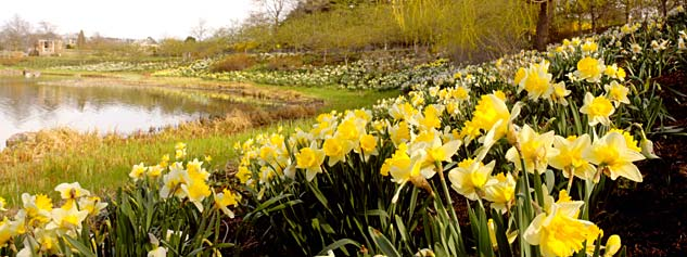 Chicago Botanic Garden Great Basin